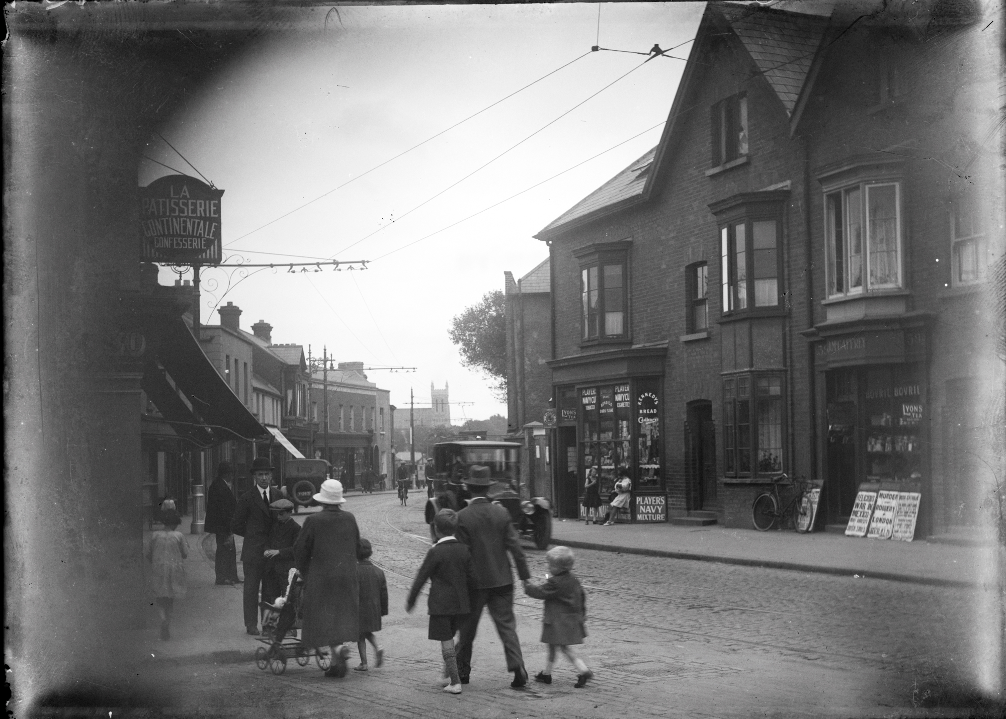 Description from National Library of Ireland Flickr page: Our catalogue described this as a Street scene, possibly in Dublin: with motor cars, pedestrians and tramlines. I knew we could do better than that, hoping J. McCaffrey at no. 39 would be a help. I was thinking Terenure-ish, but was absolutely wrong! Thanks a million to DannyM8 who suggested Donnybrook, and then backed it up with hard evidence from the 1911 census, finding John McCaffrey, greengrocer, (35) at 39 Donnybrook Road! With regard to an accurate date for this photo, one of the Irish Times news posters trumpets Religious War in Mexico, and exactly that headline appeared on page 8 of the Irish Times on Monday, 15 August 1927, so that seems relatively safe for dating... P.S. Love the alleged Confesserie! Did you confess your guilt for guzzling cream cakes here? Date: Monday, 15 August 1927 NLI Ref.: OCO 105